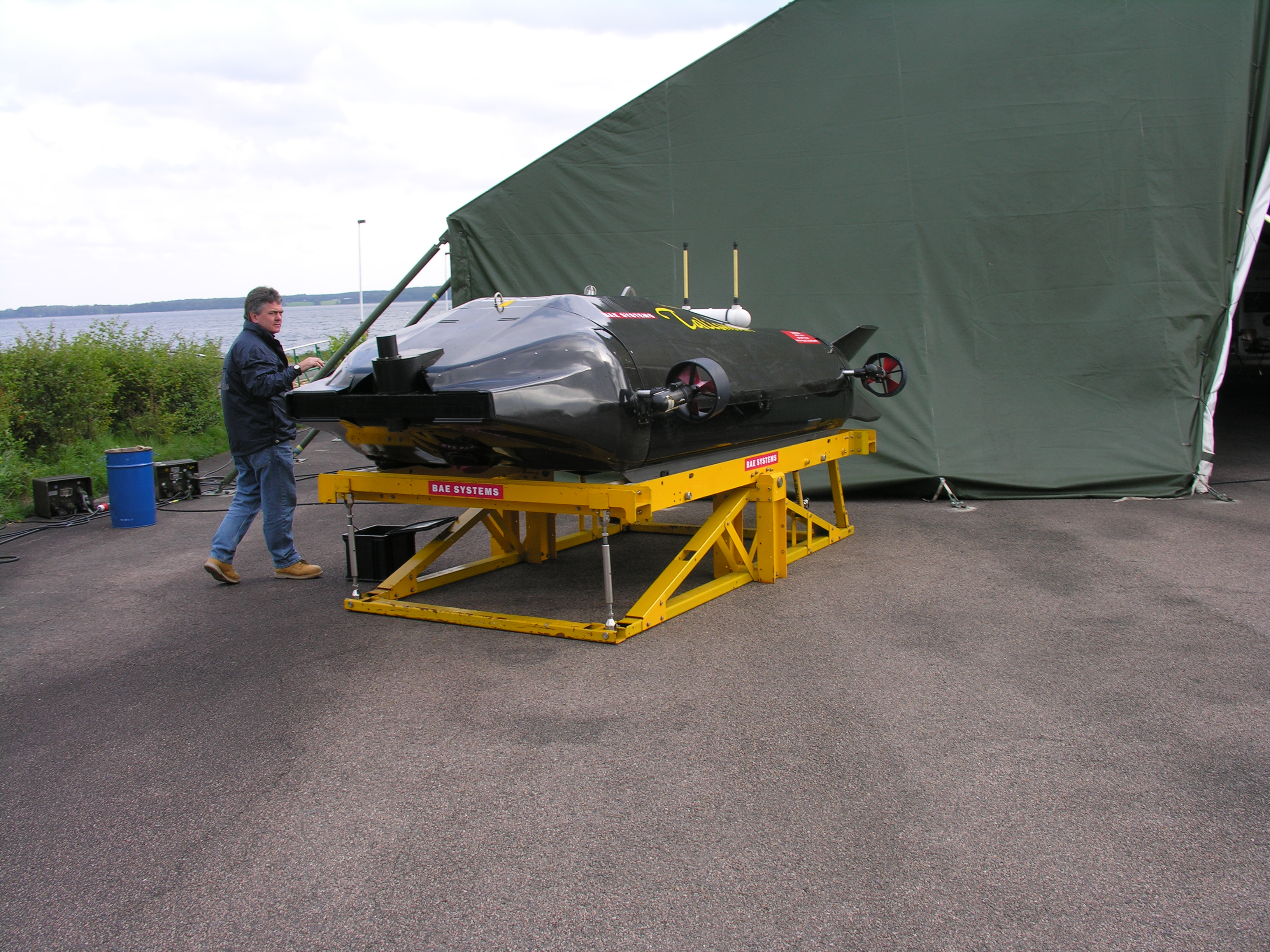 UUV TALISMAN of BAE System, TechDemo'08, 2008